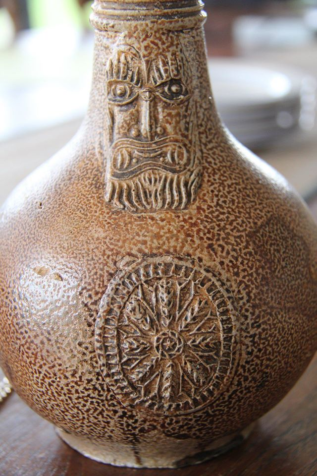 Beardman Jug found on the Vergulde Draeck